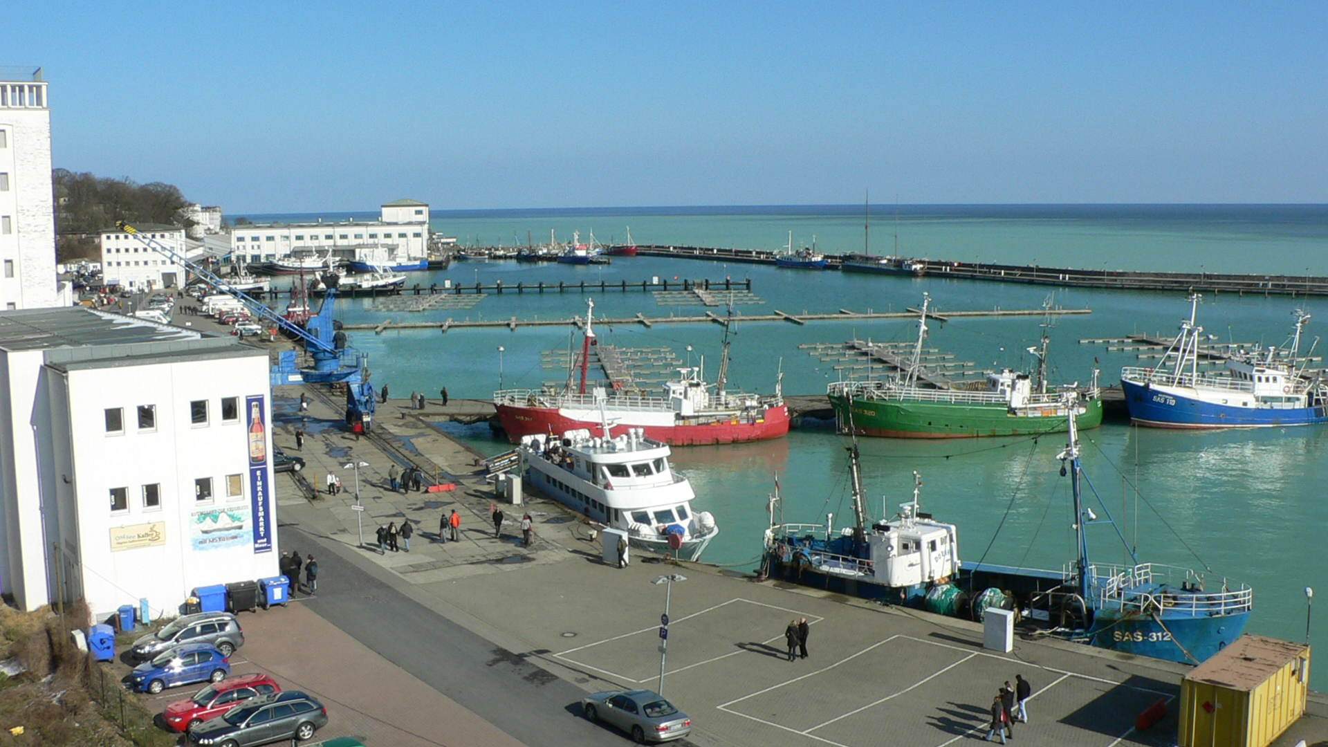 View over port of Sassnitz